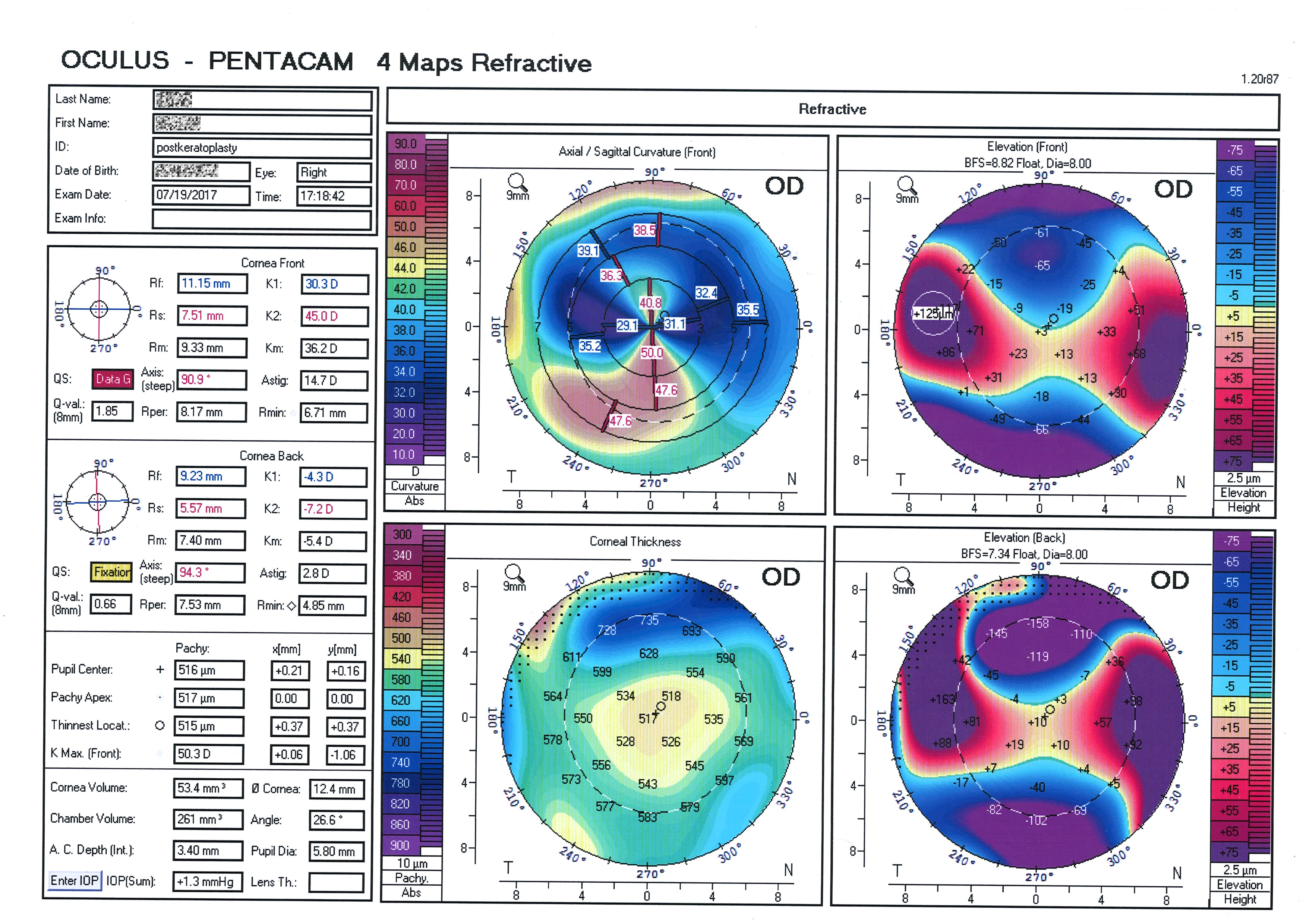 Pentacam® Corneal Eye Scan. 8 month after Penetrating Keratoplasty, can see high degrees of corneal astigmatism.